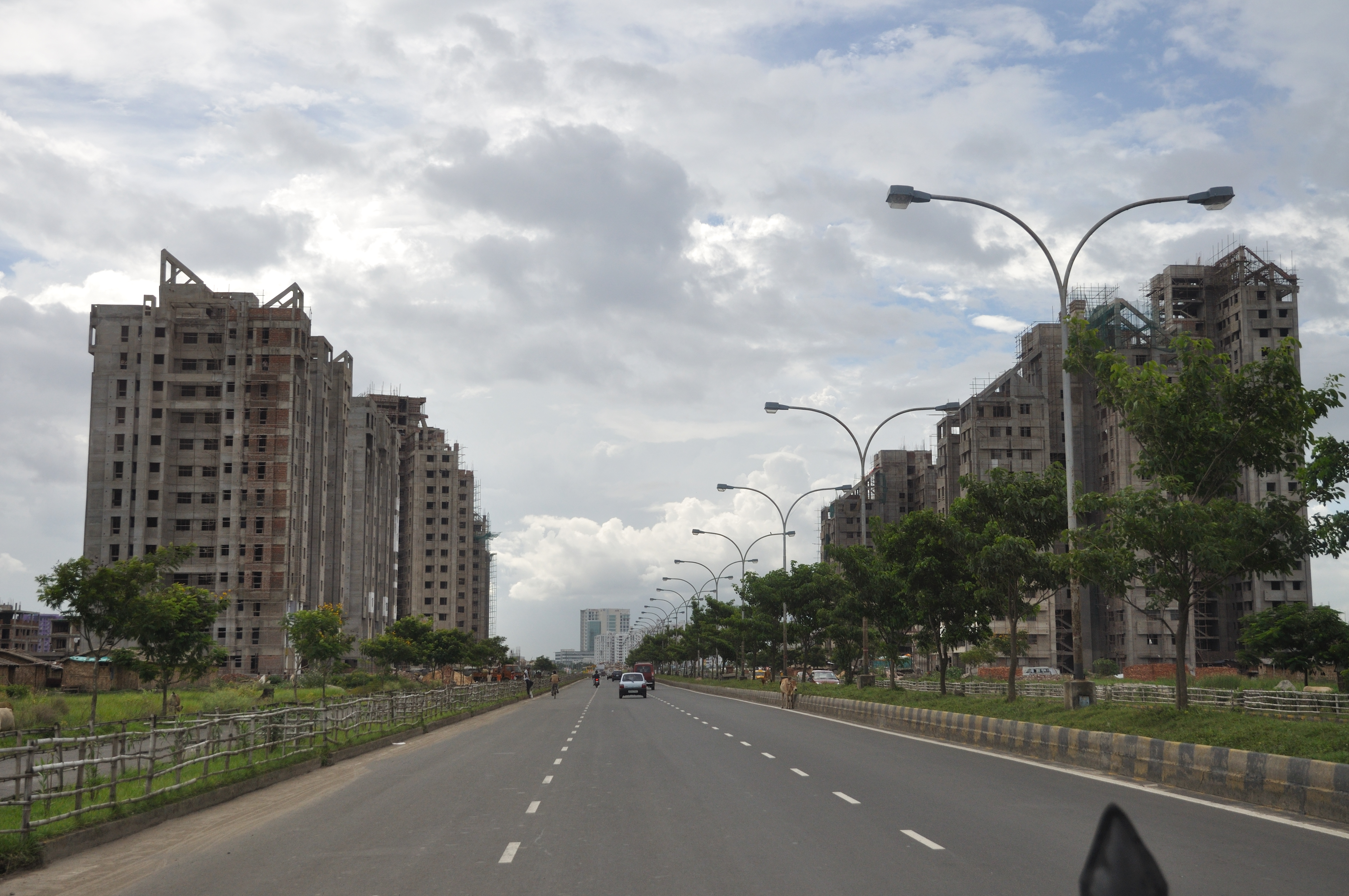 Major Arterial Road – the main road of Rajarhat also called Rajarhat Gopalpur or Jyoti Basu Nagar (renamed on 7th October, 2010) located in North 24 Parganas district of West Bengal, is one of India's latest and fastest-growing planned new cities.